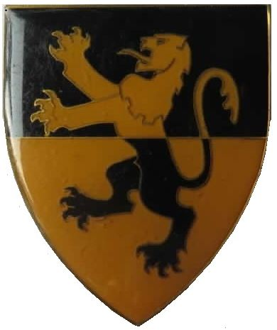 SADF era Magdol Commando emblem